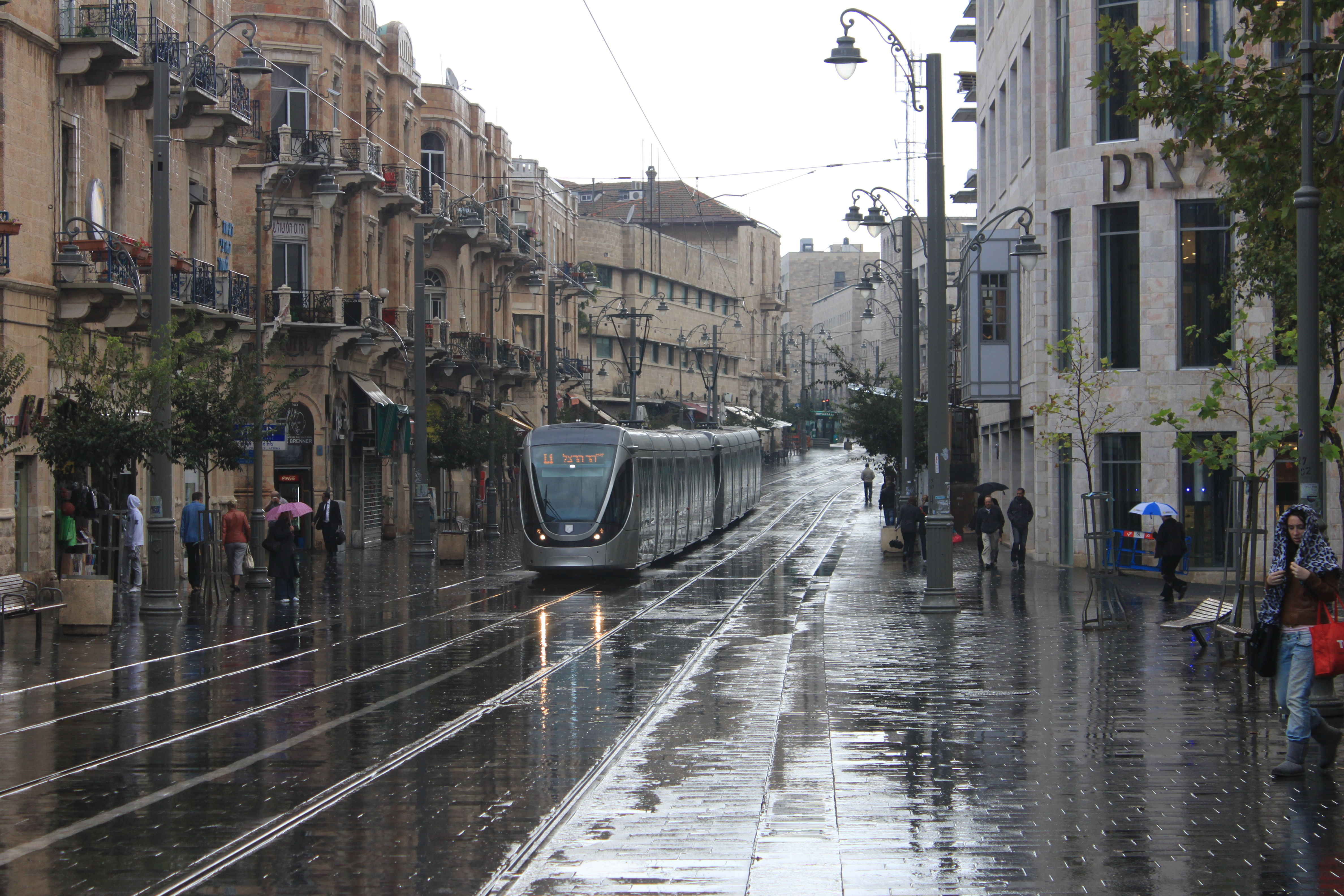 Jerusalem Light Rail in Zion Square on A Rainy morning - November 2011